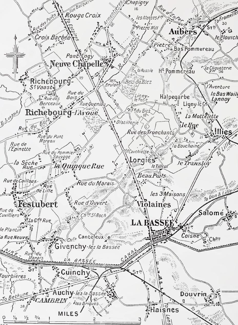 Map Neuve Chapelle to La Bassee, 1915